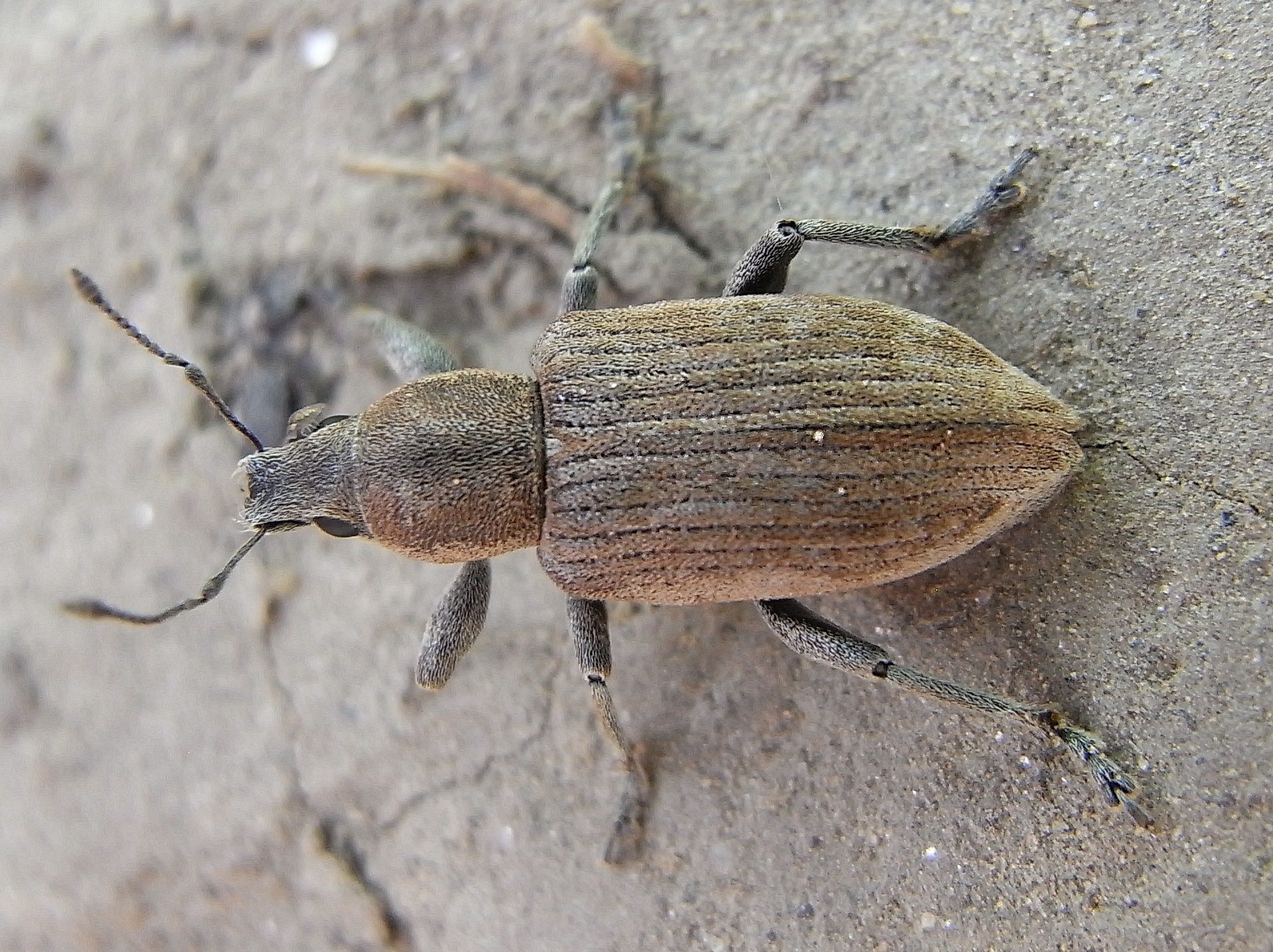 Tanymecus palliatus from Hungary, near Villany at 2010-05-07 Ricoh R8